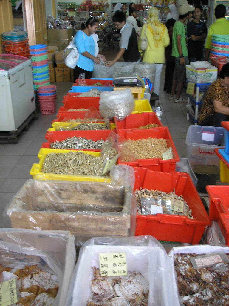 Dried seafood, local speciality of Pangkor Island.